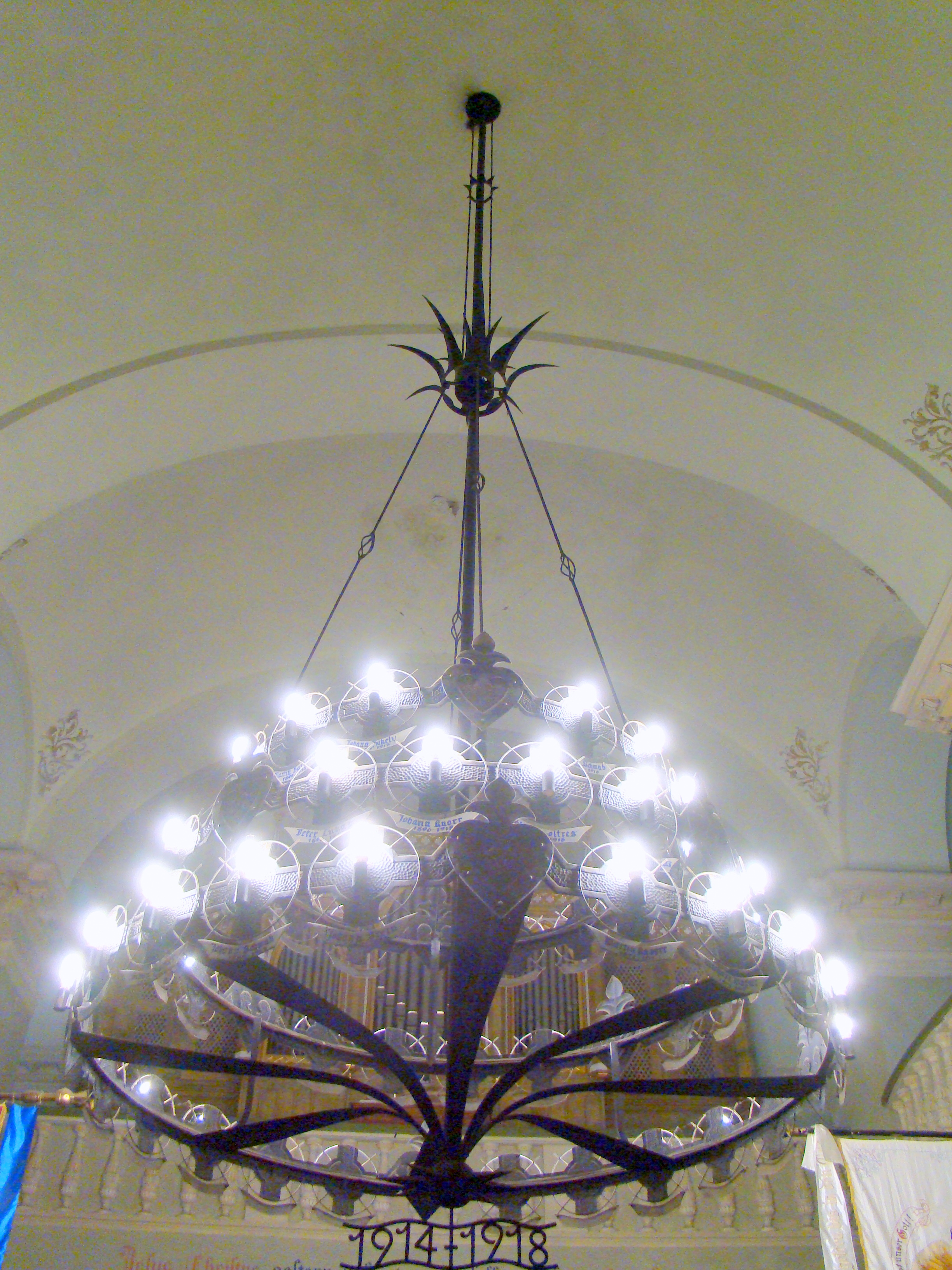 Fortified church in Cristian, Brașov County, Romania